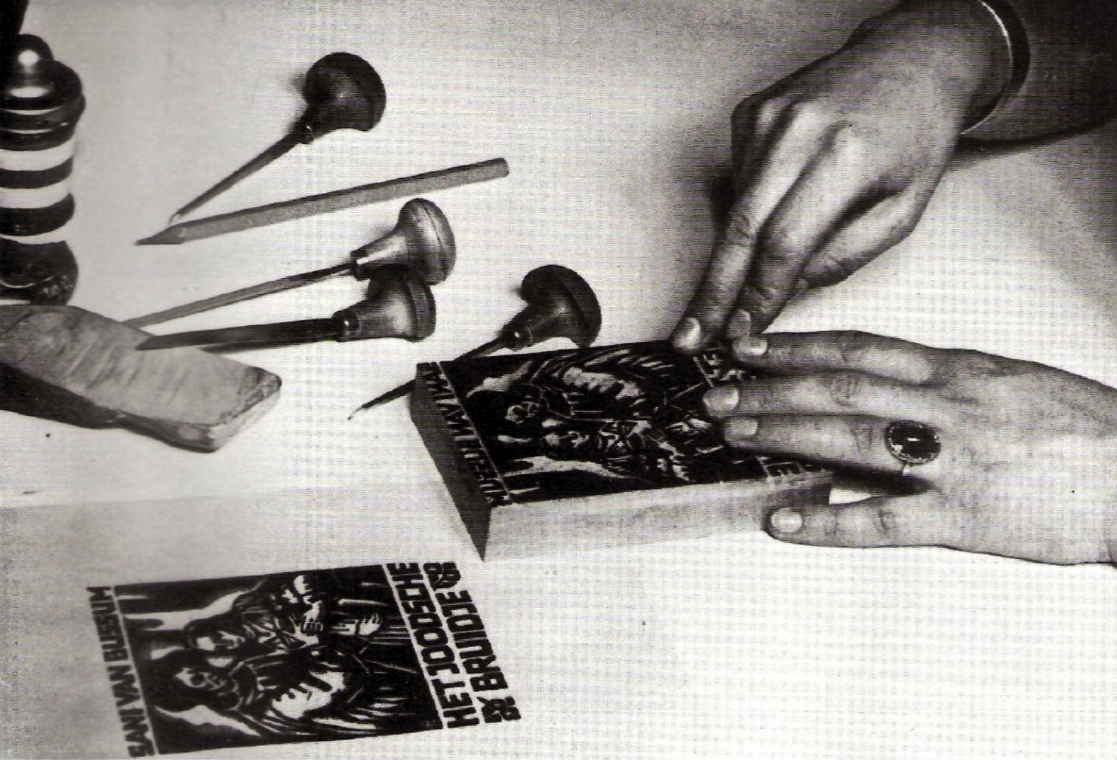 Fré Cohen working for the cover of the book by author Sani van Bussum: Het Joodsche bruidje after the painting by Rembrandt, published at Emanuel Querido Uitgeverij.